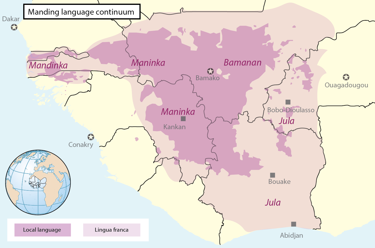 Map of the Manding language continuum with approximate zones of major spoken varieties (Mandinka, Maninka, Bamanan and Jula) and shading of general areas where Manding functions as a lingua franca. Adapted from data of the following: Vydrin, Valentin, T.G. Bergman, and Matthew Benjamin. 2001. “Mandé Language Family of West Africa: Location and Genetic Classification.” SIL International 2000 (003). SIL Electronic Survey Reports (April 1).